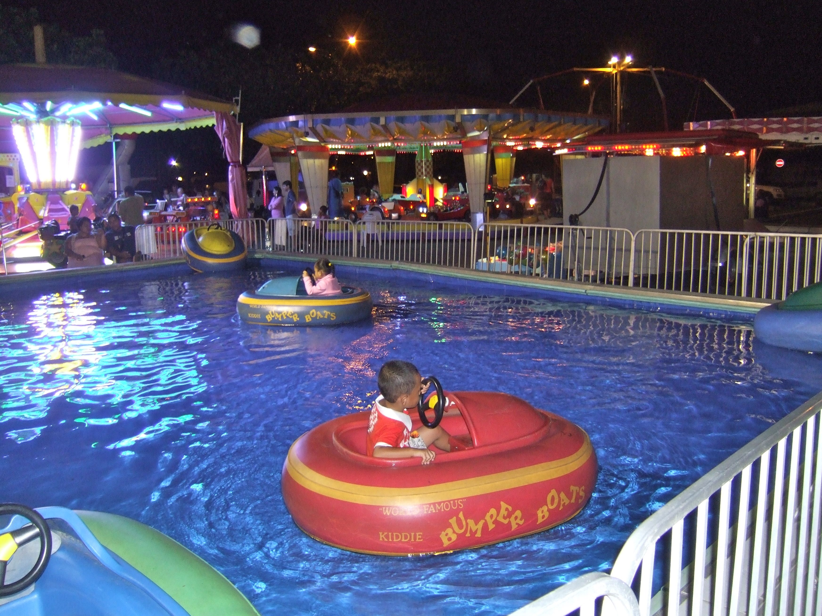 Two children in two bumper boats in a children's water ride in Nouméa, 2011, in the evening in a lighted amusement park. Other information Photo by George Garrigues.